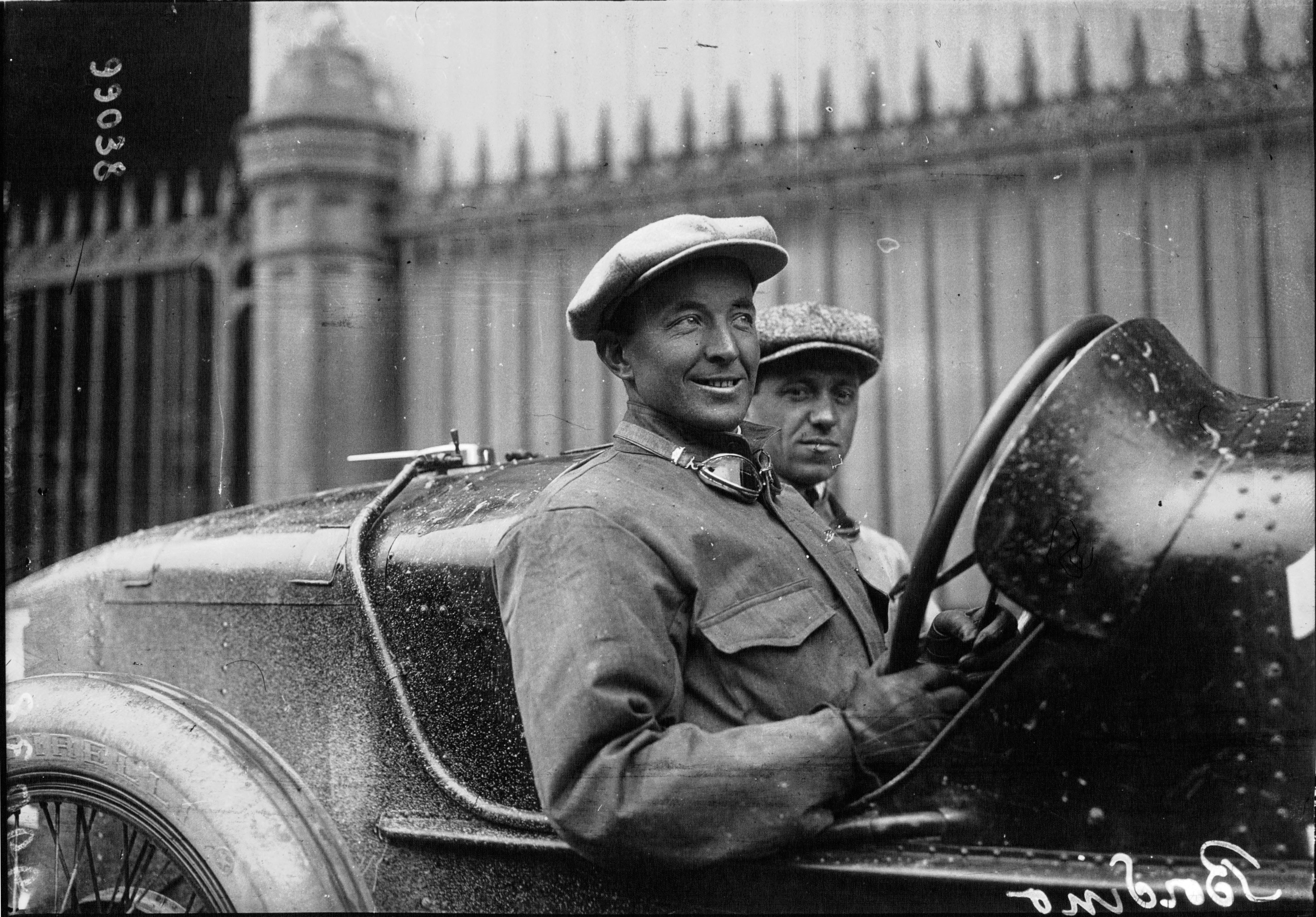 Pietro Bordino at the 1922 French Grand Prix